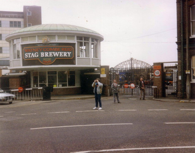 Watney Combe Reid - the Stag Brewery, Mortlake 1989 Main entrance of Watney Combe Reid's Stag Brewery, Lower Richmond Road, Mortlake pictured in 1989. The Young's pub across the road was always full of Watney's workers.